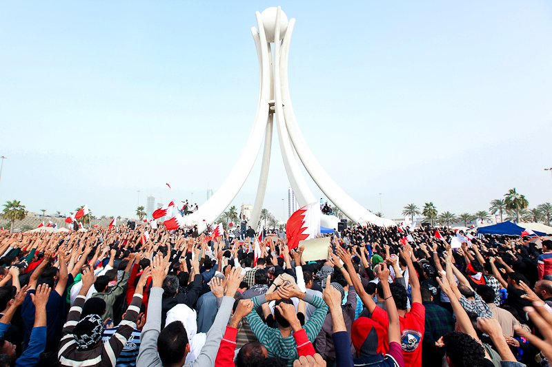 Protesters fests toward Pearl roundabout